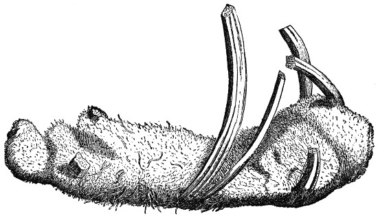 An illustration of the specimen of the vegetable lamb of Scythia, actually the rhizome of the fern Cibotium barometz, Hans Sloane included in a letter published in Philosophical Transactions, Volume 20, in 1698. Sloane found the specimen in a Chinese cabinet of curiosities he acquired.